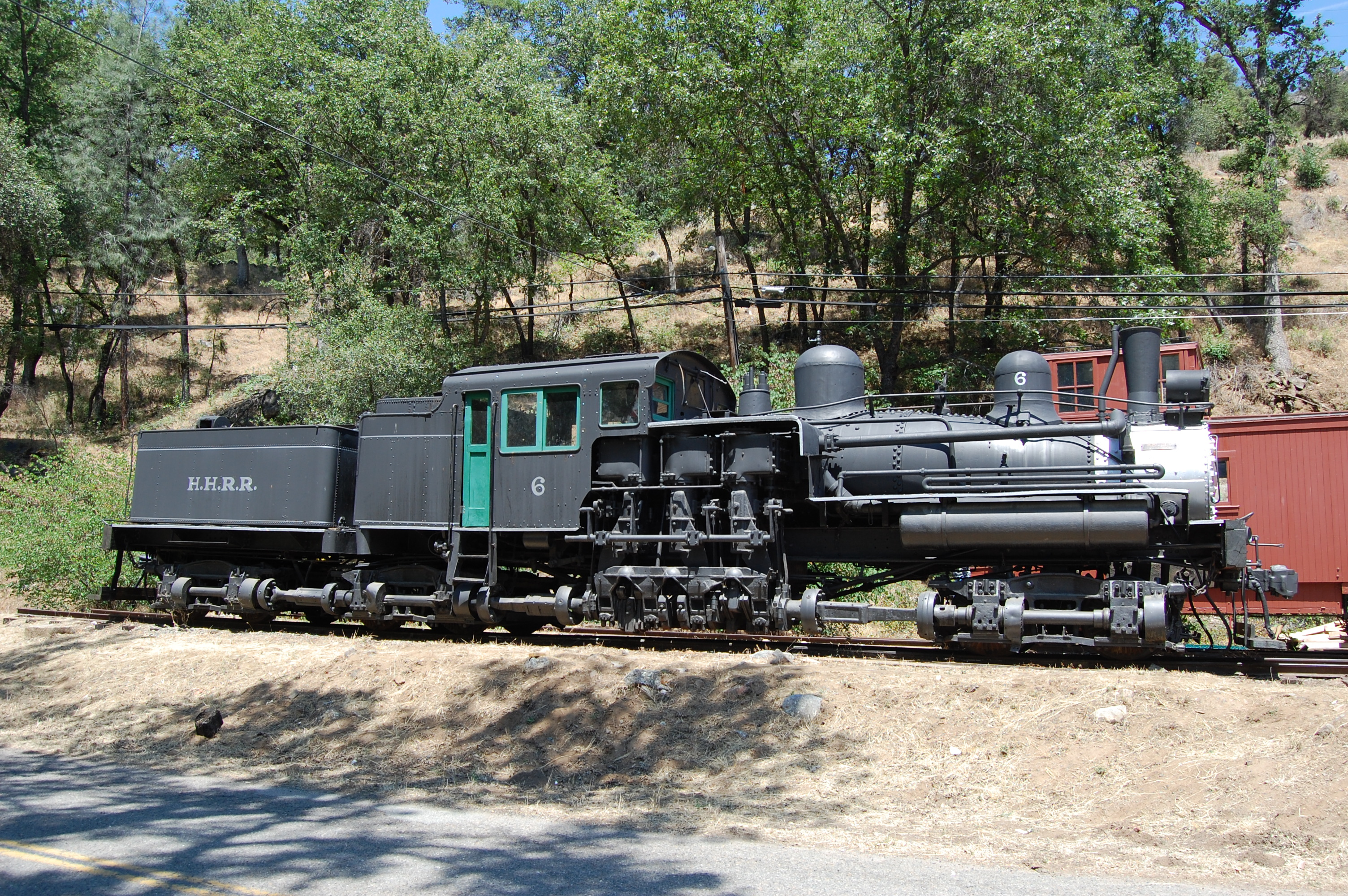 Hetch Hetchy RR Engine No. 6 in El Portal, California.